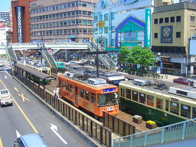 Trams flowing with traffic in Nagasaki, Japan